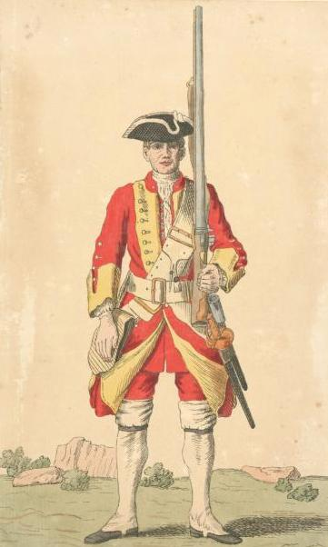 Soldier of the 26th regiment (1742)